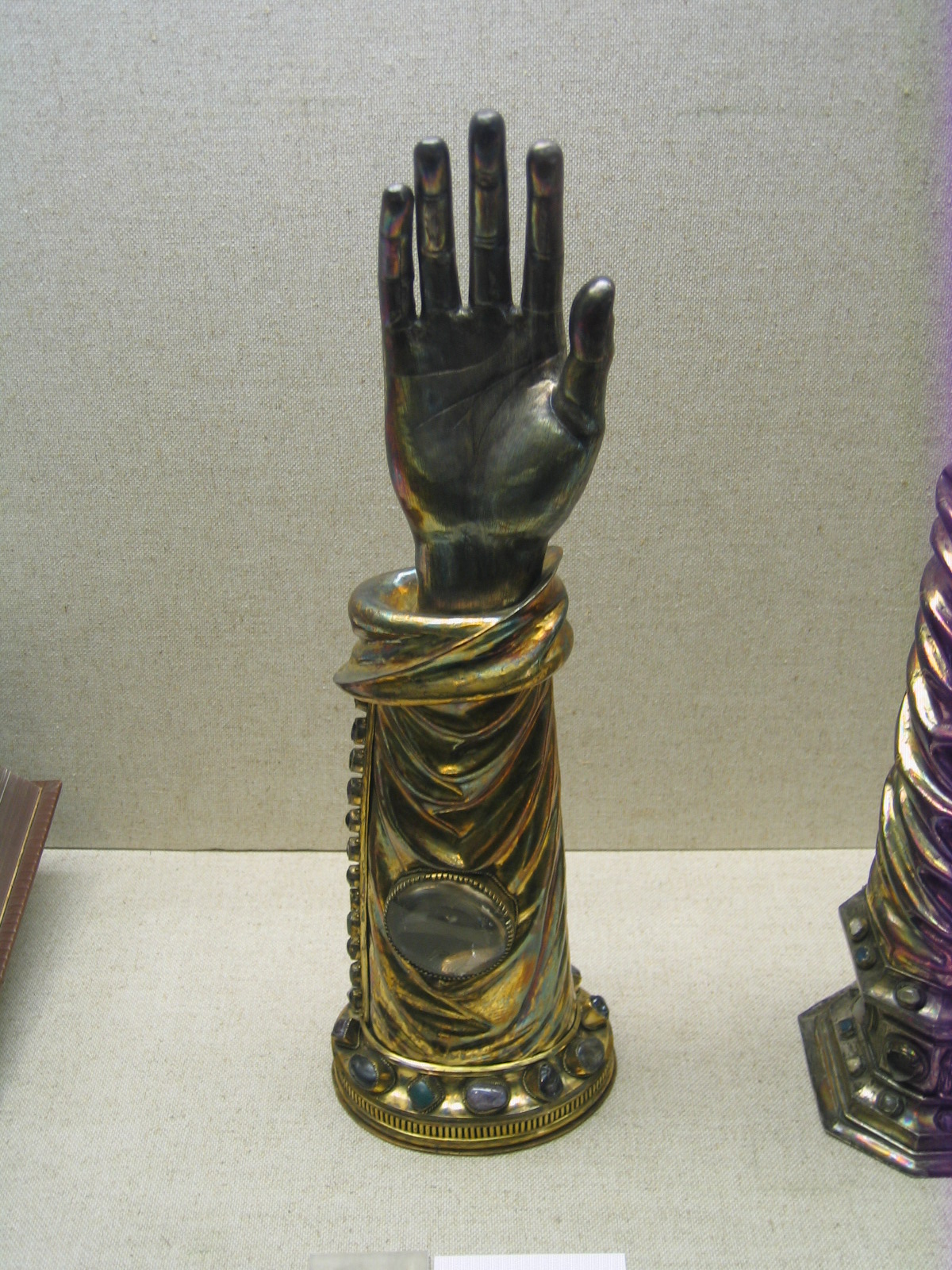 Cathedral in Minden, District of Minden-Lübbecke, North Rhine-Westphalia, Germany.